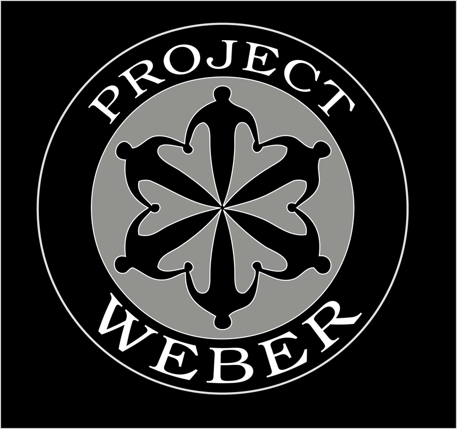 Logo for Project Weber, a non-profit organization in Providence, RI.